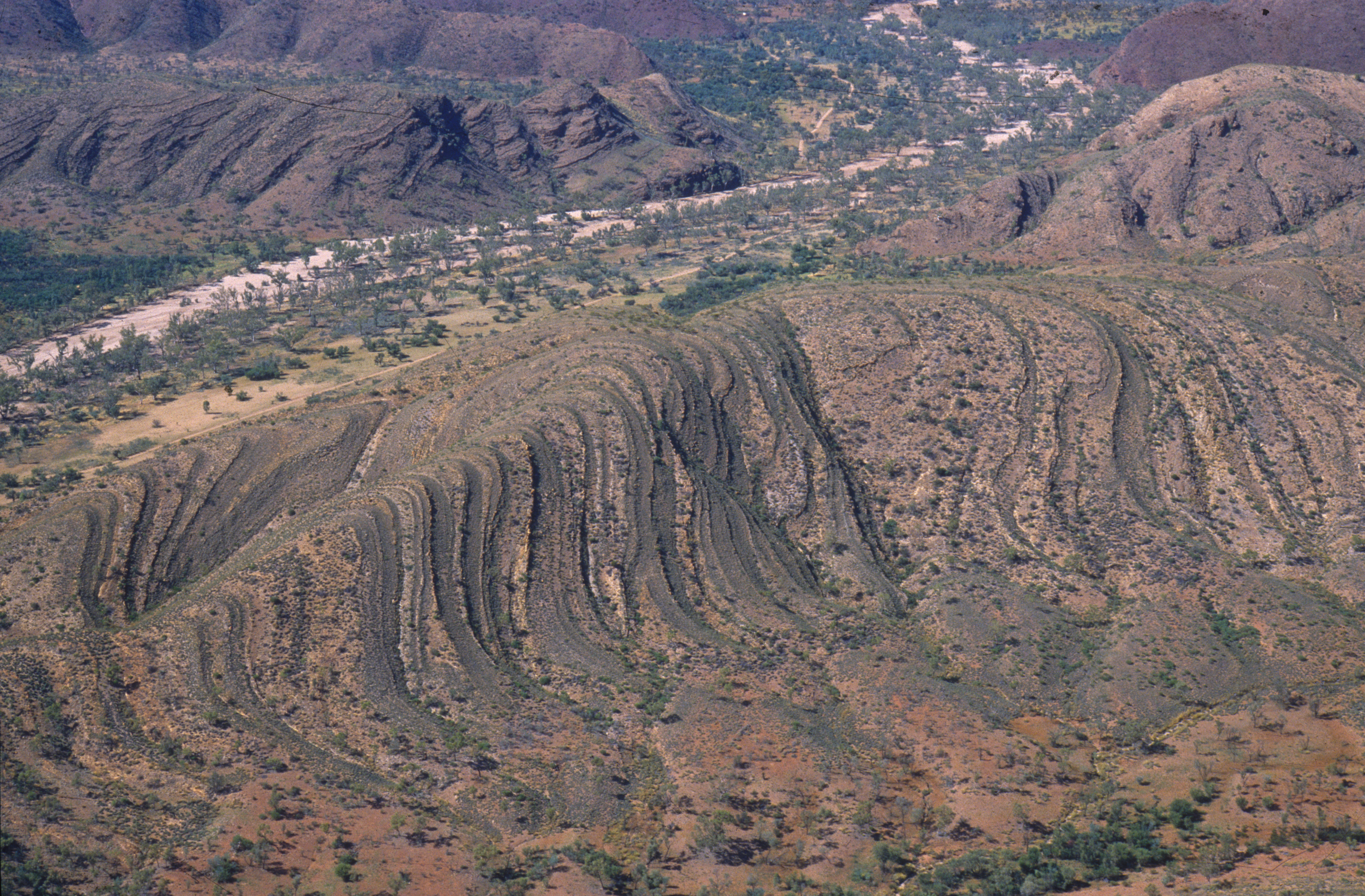 Aerial view of MacDonnell Ranges revealing rock strata, near Alice Springs, Northern Territory. October 1986 Photo credit: Robert Kerton